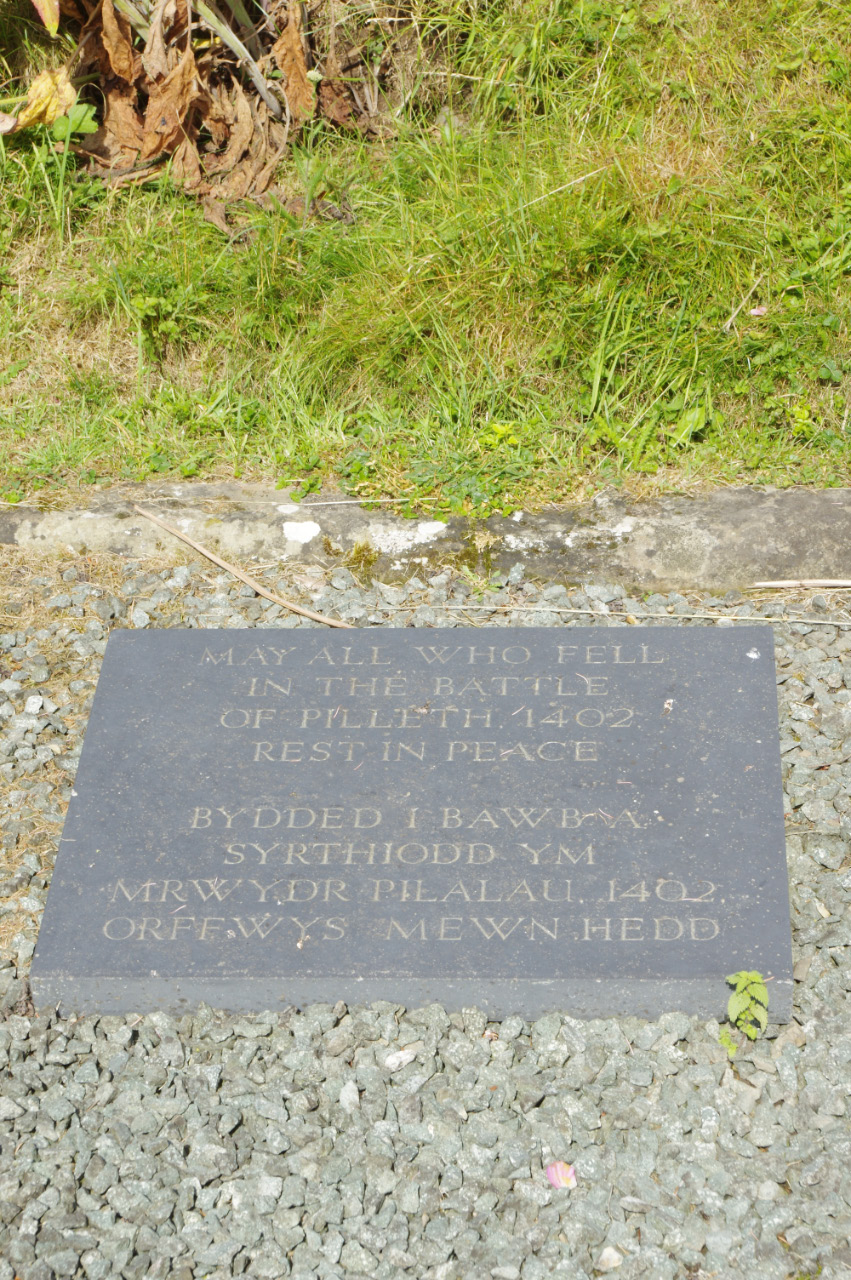 Commemoration plaque to those who died at the Battle of Bryn Glas, Pilleth churchyard, Powys, Wales.